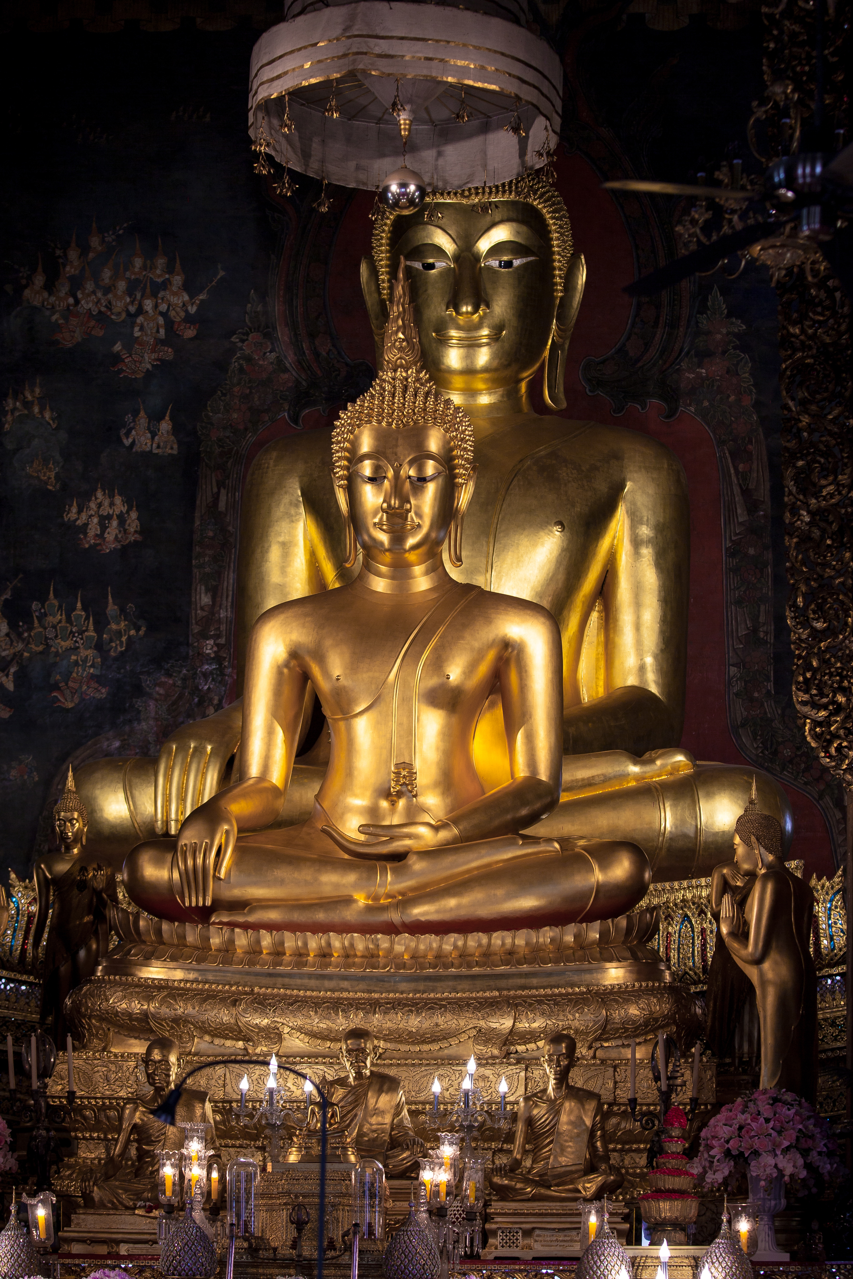 Phra Buddha Shinnasee (Front) and Phra Suwanakhet (Behind) at the chapel of Wat Bowonniwet.